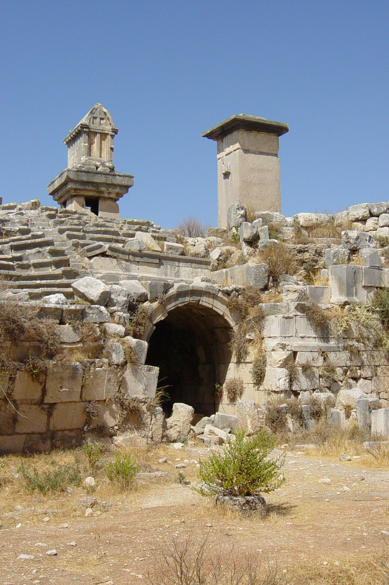 Entrance into theatre at the historic site of Xanthos. The city was the capital of the Lycian Federation. Turkey.